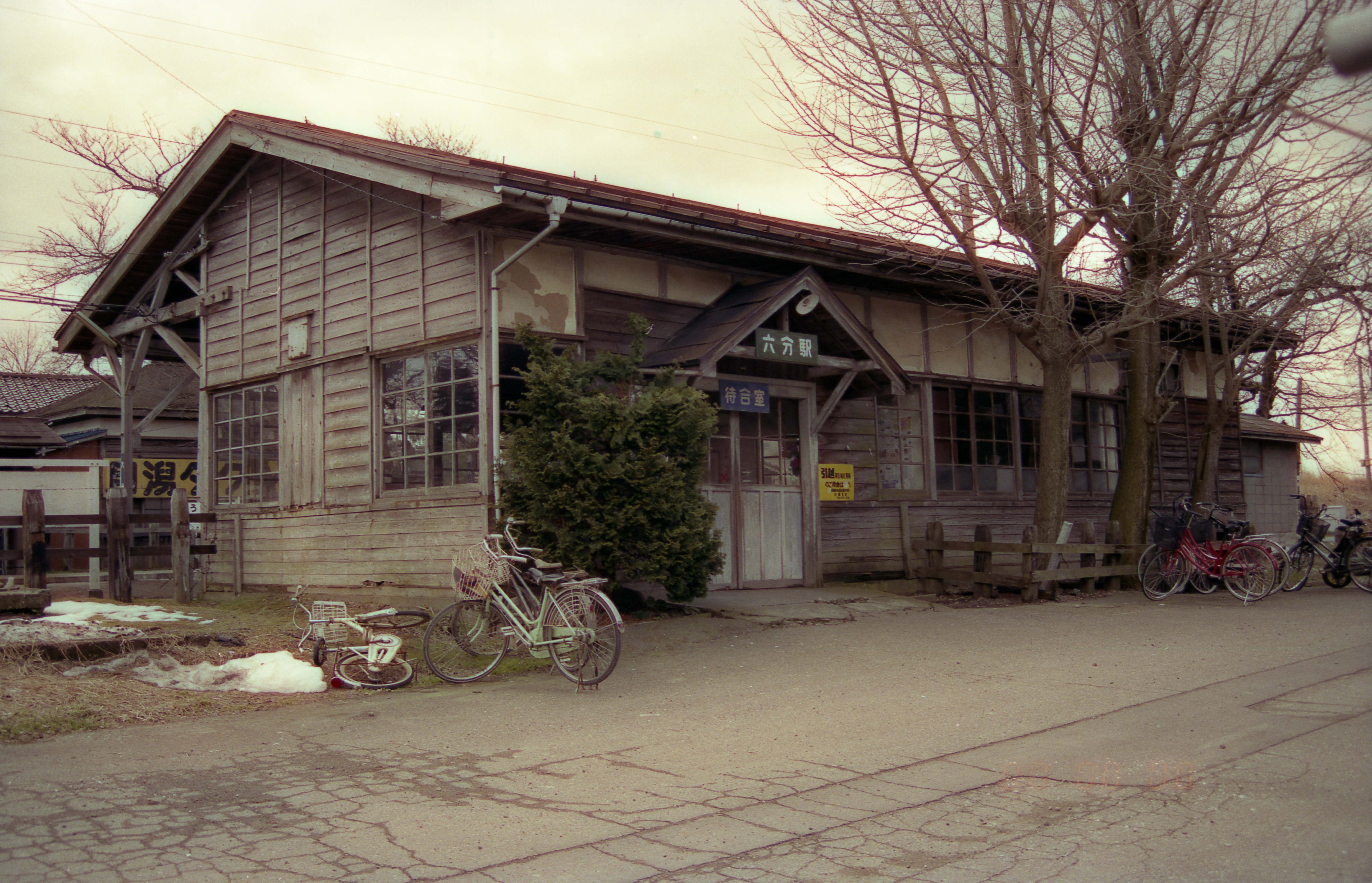 Rokubu Station of Niigata Kotsu Railway (before it was abolished)